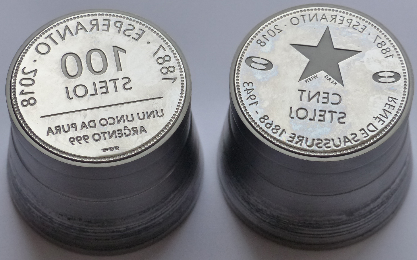 100 Steloj 2018 Stampiloj Stelo